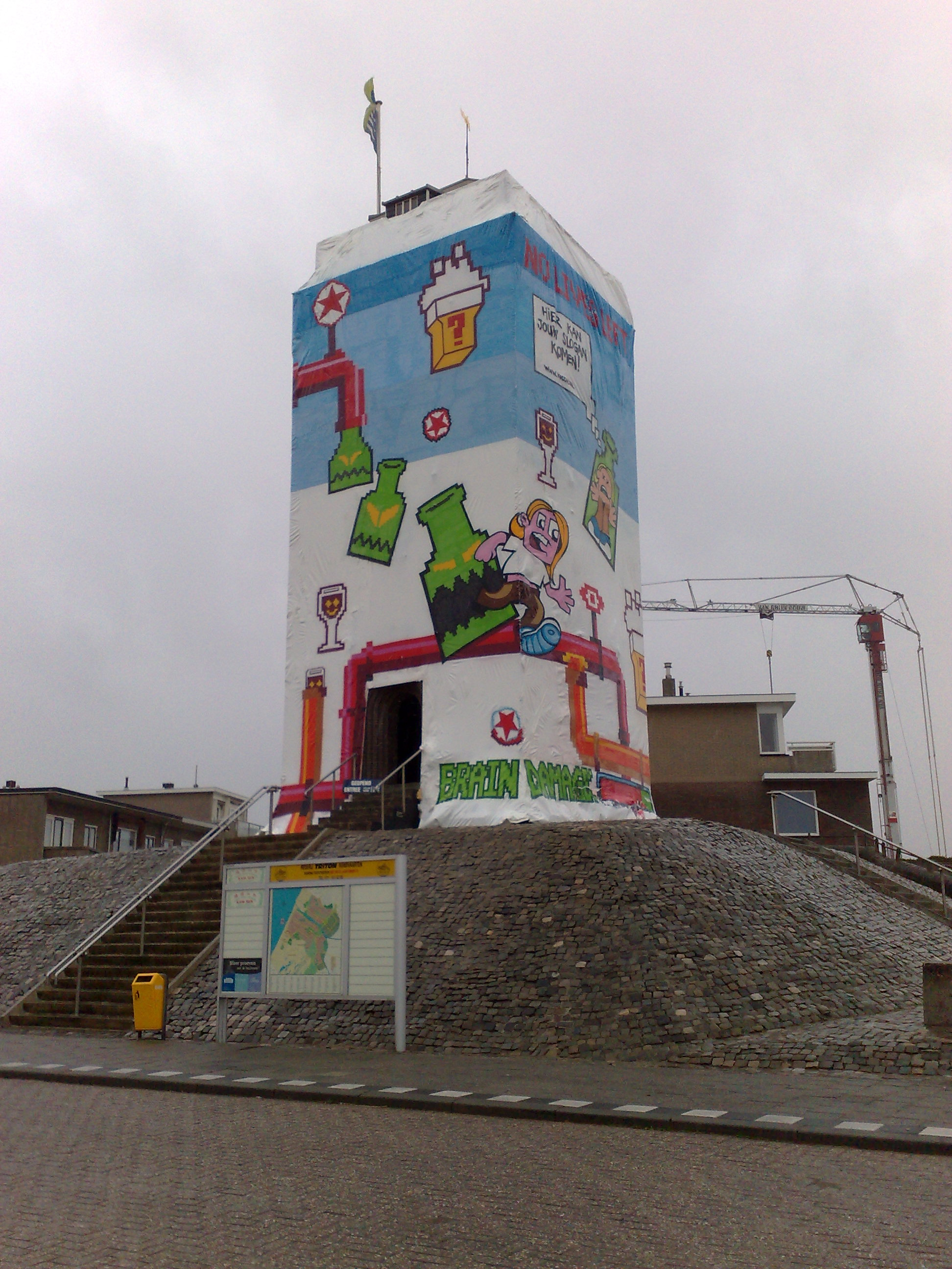 Lighthouse "Vuurbaak" in Katwijk covered by graffiti